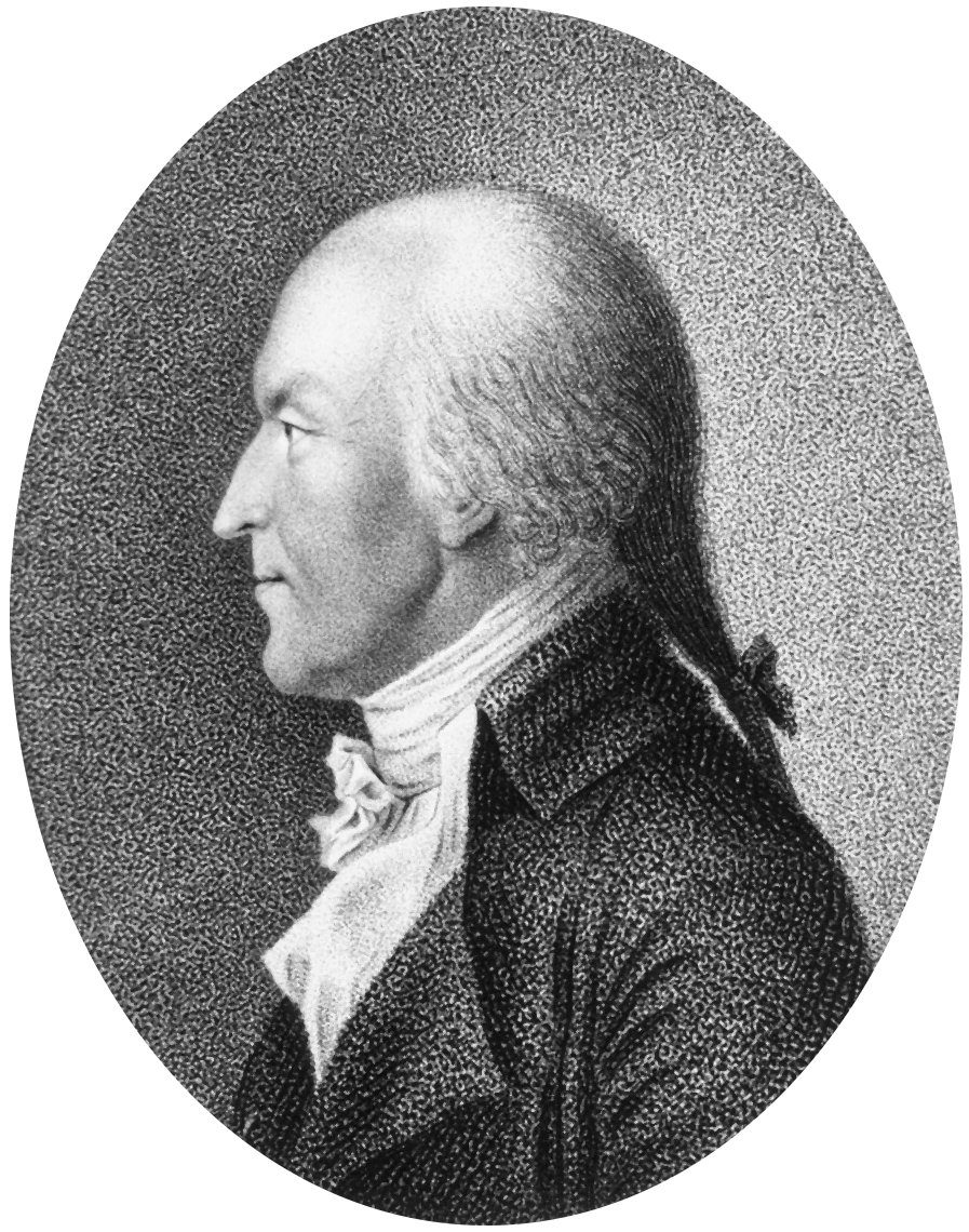 Moritz Gerhard Thilenius (1745-1808)